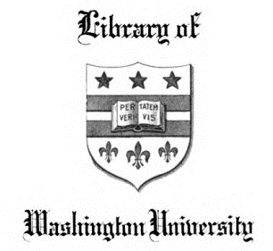 This bookplate shows the coat of arms of George Washington, the official seal of the university, and the arms of Louis IX of France, for the city of St. Louis.